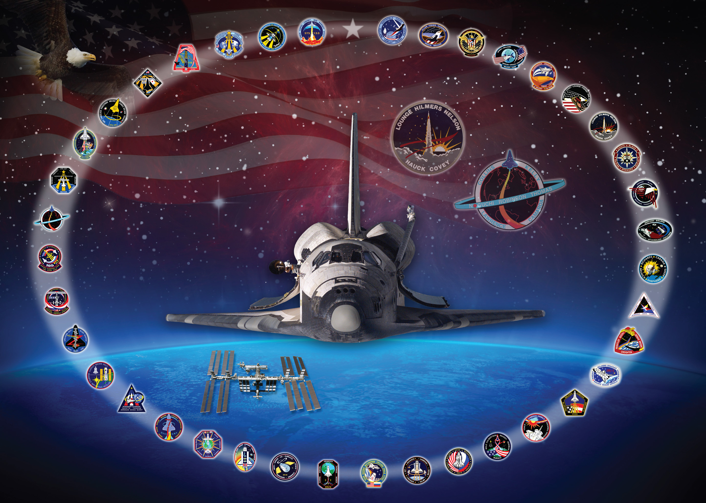 This is a printable version of space shuttle Discovery's orbiter tribute, or OV-103, which hangs in Firing Room 4 of the Launch Control Center at NASA's Kennedy Space Center in Florida. Discovery's accomplishments include the first female shuttle pilot, Eileen Collins, on STS-63, John Glenn's legendary return to space on STS-95, and the celebration of the 100th shuttle mission with STS-92. In addition, Discovery supported a number of Department of Defense programs, satellite deploy and repair missions and 13 International Space Station construction and operation flights. The tribute features Discovery demonstrating the rendezvous pitch maneuver on approach to the International Space Station during STS-114. Having accumulated the most space shuttle flights, Discovery's 39 mission patches are shown circling the spacecraft. The background image was taken from the Hubble Space Telescope, which launched aboard Discovery on STS-31 and serviced by Discovery on STS-82 and STS-103. The American flag and bald eagle represent Discovery's two Return to Flight missions -- STS-26 and STS-114 -- and symbolize Discovery's role in returning American astronauts to space. Five orbiter tributes are on display in the firing room, representing Atlantis, Challenger, Columbia, Endeavour and Discovery.